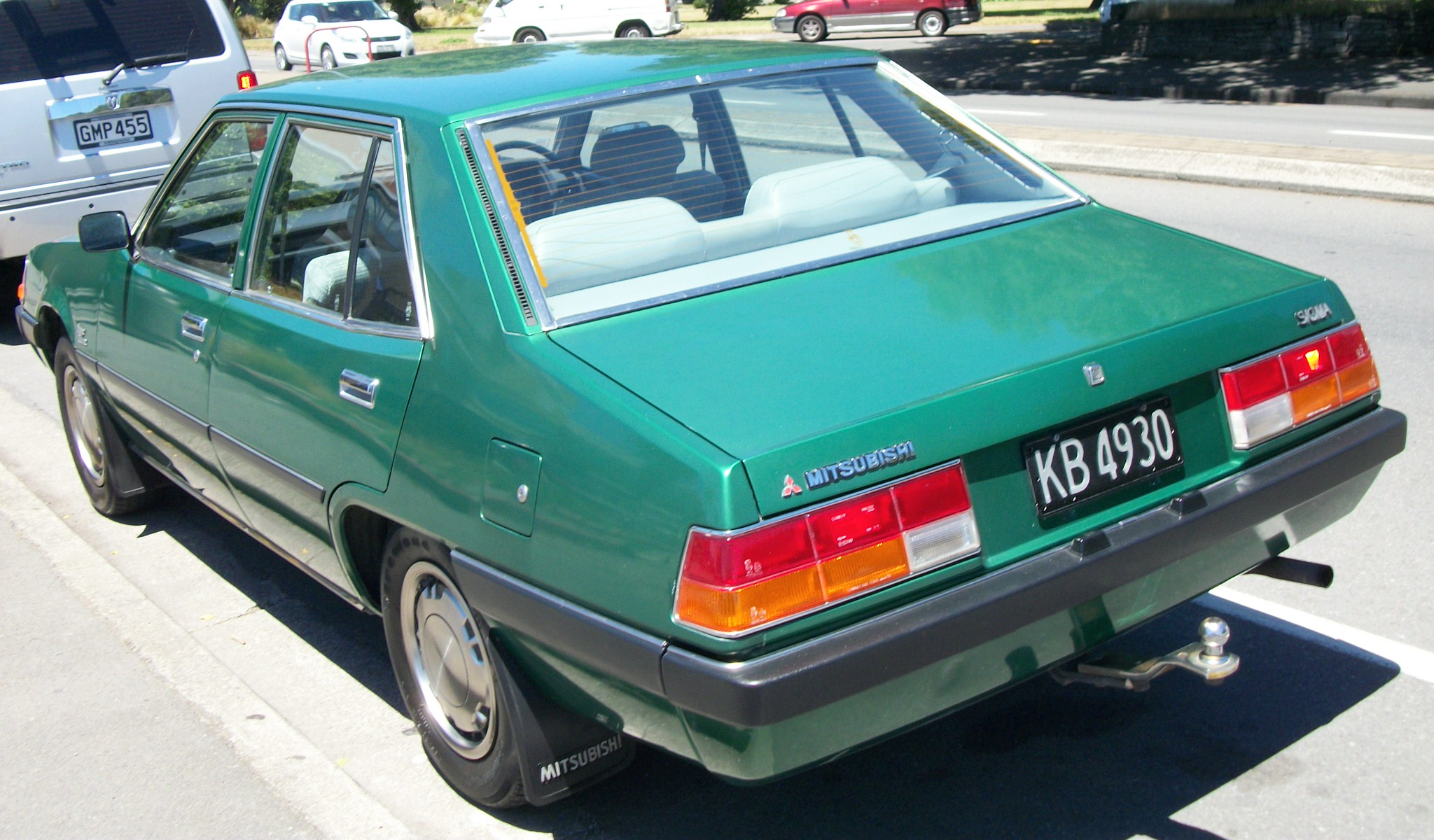 KB4930 I always liked this shape of Sigma, even if quite a few of them rusted heavily in less than 10 years. At least this one has survived, most likely thanks to a dry garage...